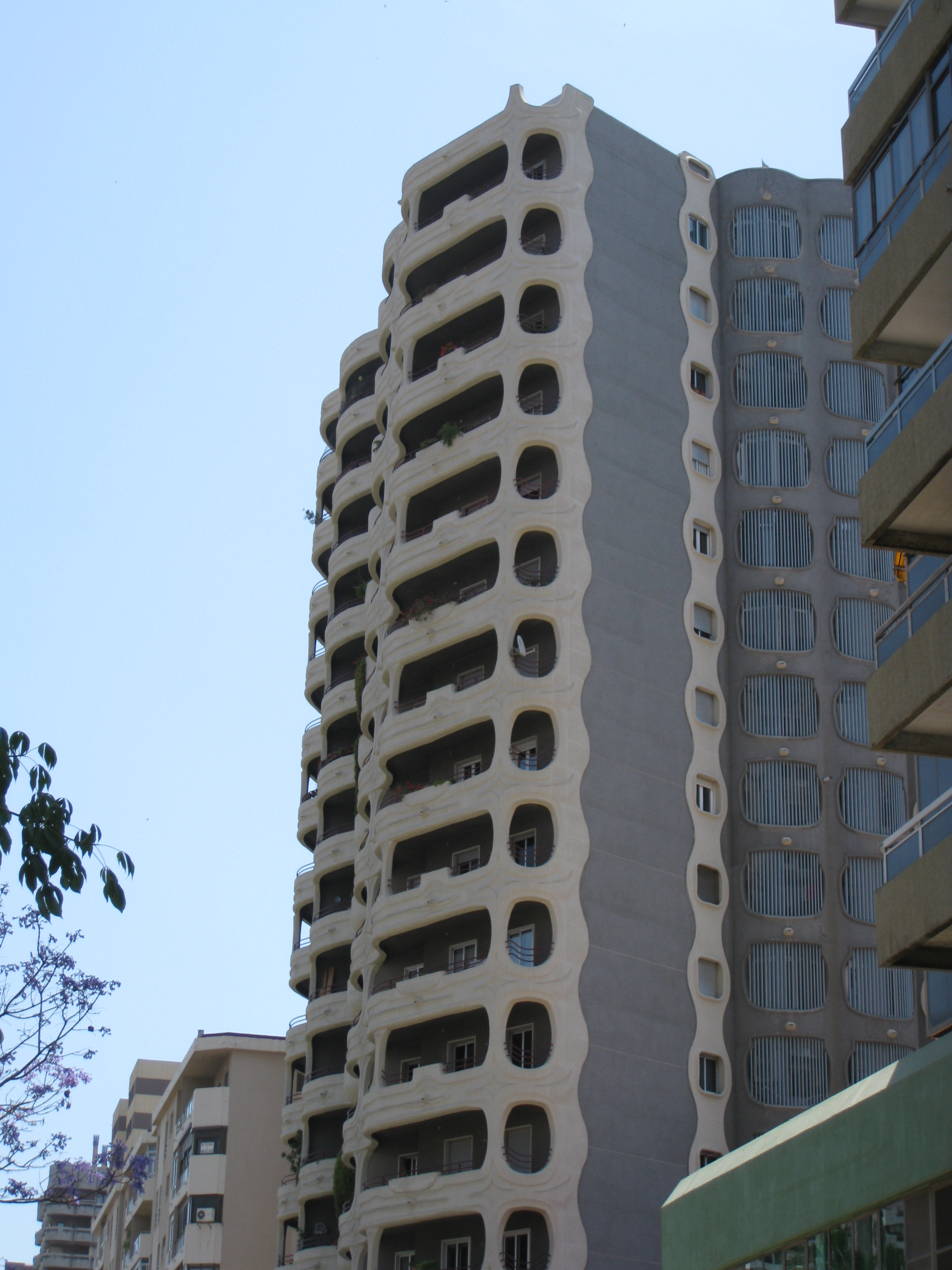 Edificio Gaudí in Avenida de Andalucía, Málaga, Spain. Architects: Antonio García Garrido & Eduardo Ramos Guerbós, 1977.